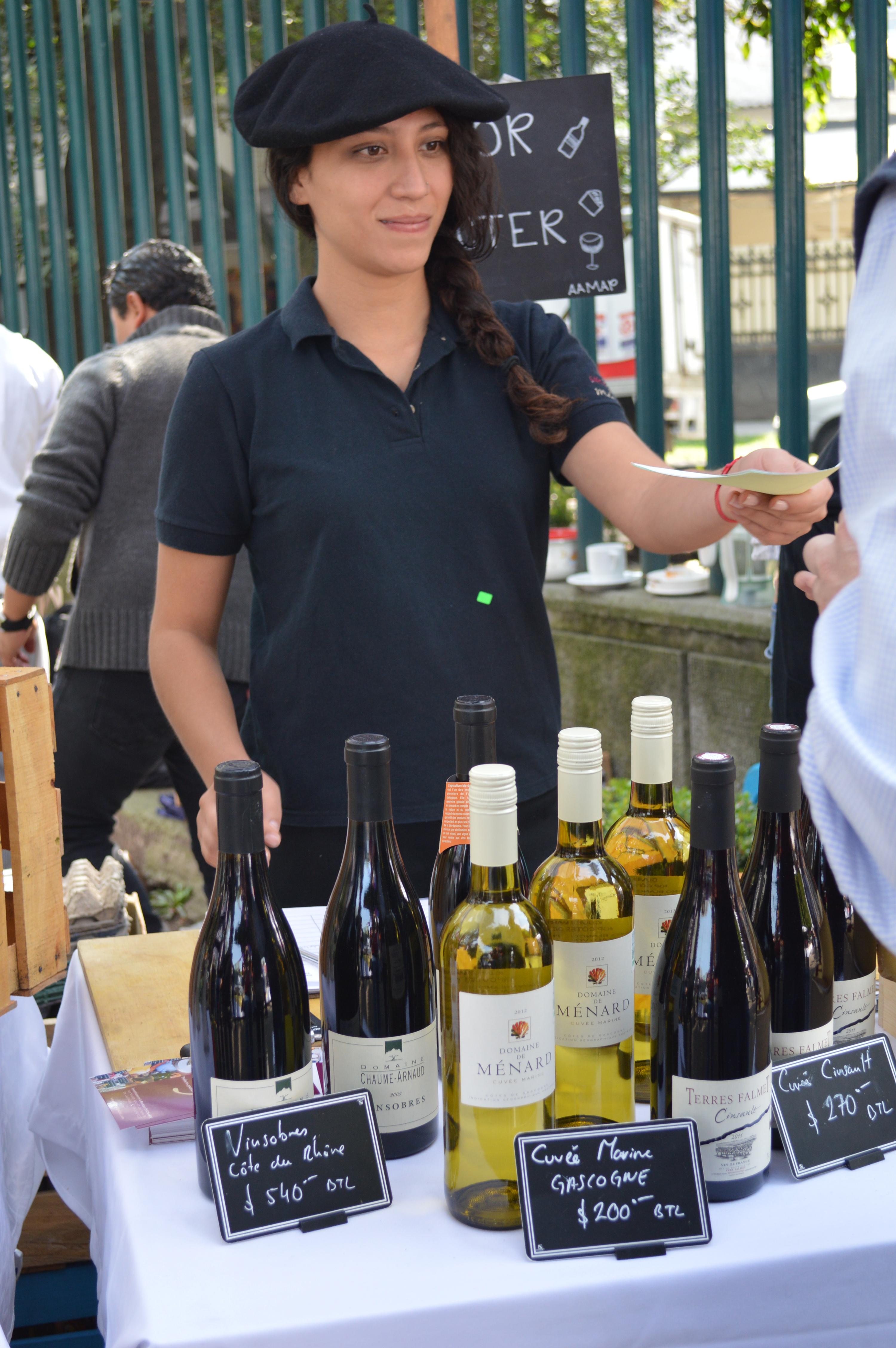 Wine vendor at the Nuestro Mercado de Quesos Artesanales of the Asociación de Amigos del Museo de Arte Popular, held at Lincoln Park in Polanco, Mexico City